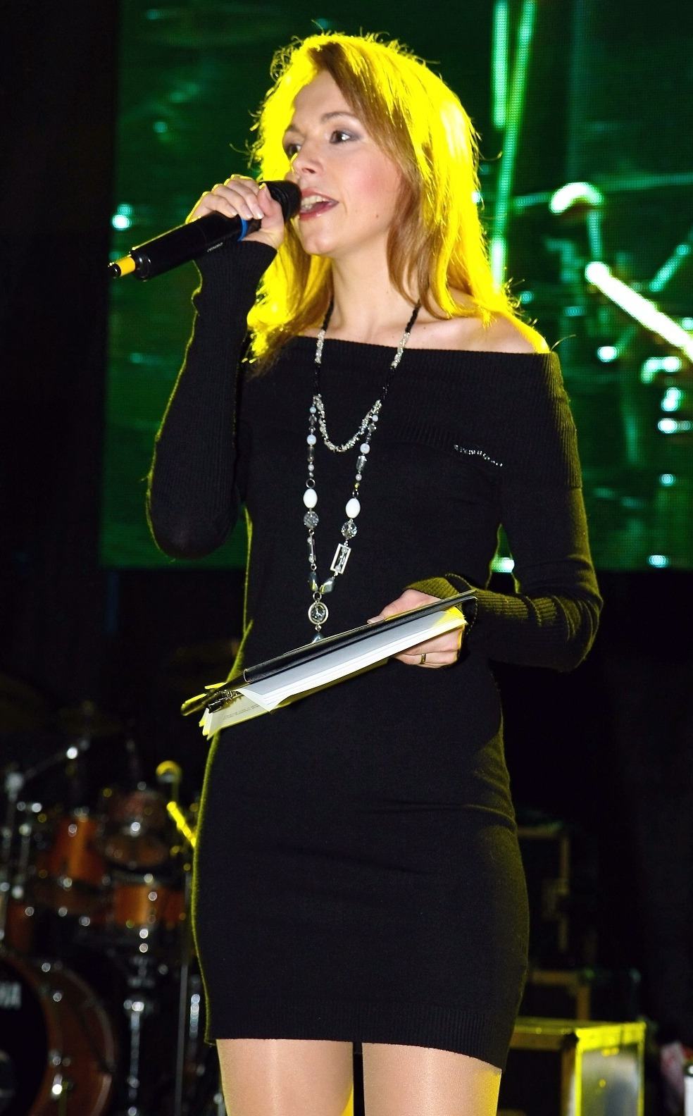 Martina Kocianova